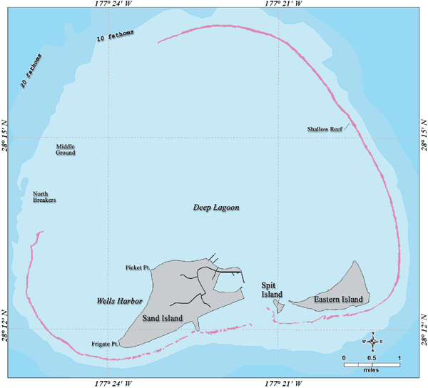 Bathymetric map of Midway Atoll, Northwestern Hawaiian Islands